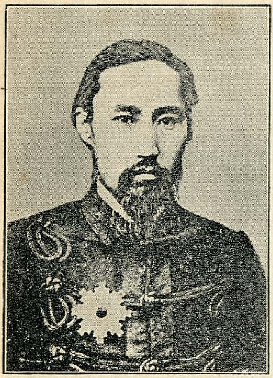 Torio Koyata(鳥尾小弥太) was a Japanese officer and statesman in Meiji era.